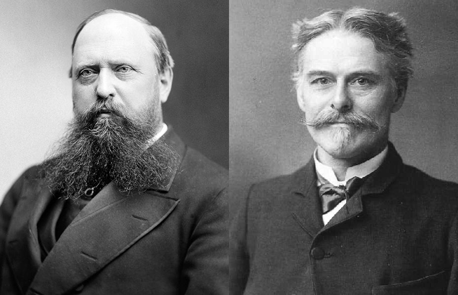 Othniel Charles Marsh (1831–1899) plus Edward Drinker Cope (1840-1897), rival American paleontologists Uploader's notes: The uploader cropped and reduced the pixel density of the Marsh image, removed color from the Cope image and converted it from PNG to JPG format, and edited contrast on both.